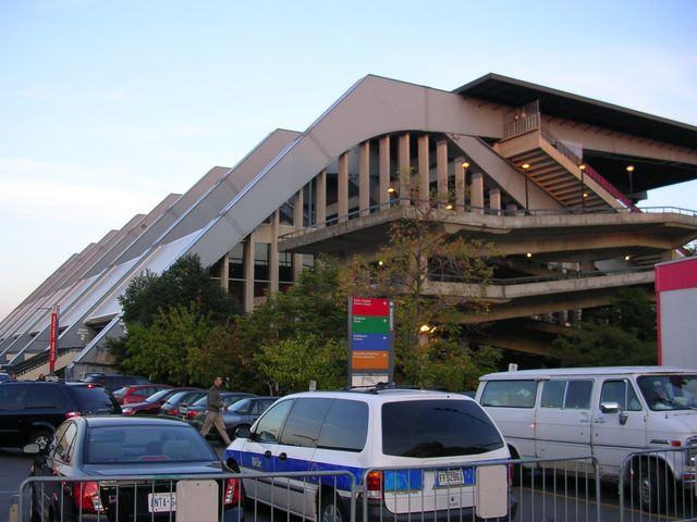 Side view of the exterior of the Ottawa Civic Centre in Ottawa, Ontario.